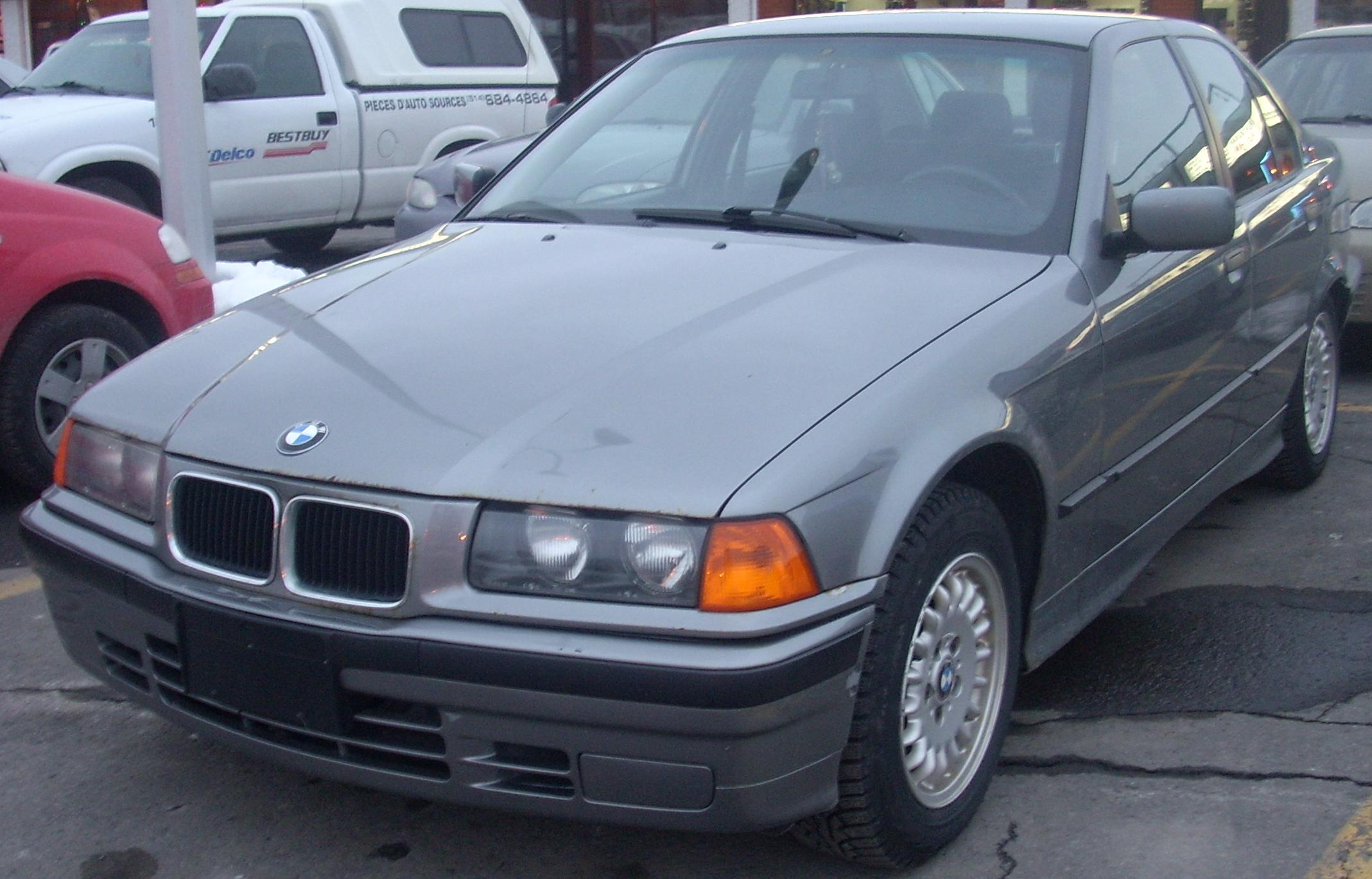 1992-1995 BMW 3-Series photographed in Montreal, Quebec, Canada.